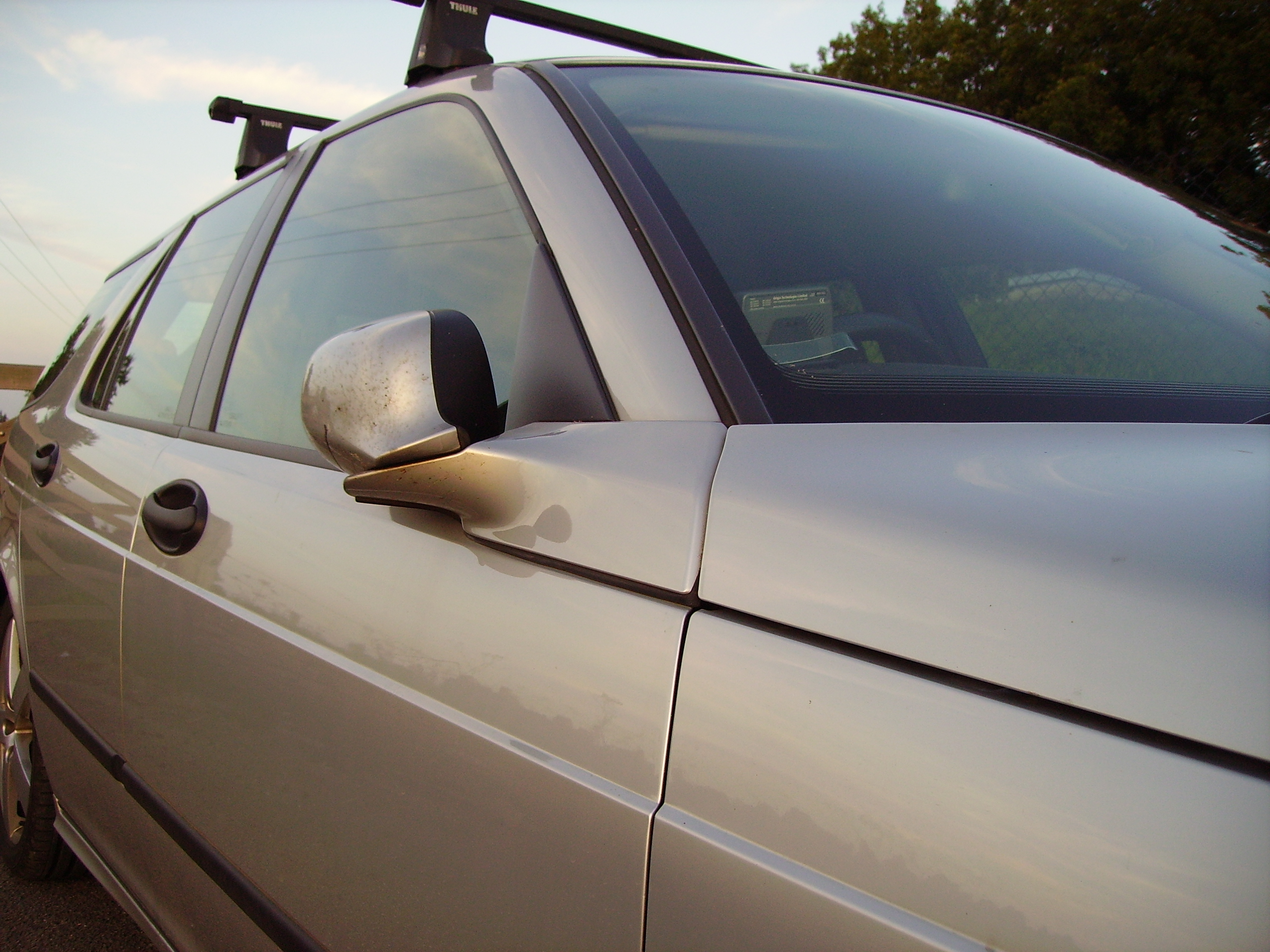 Photographer: User:Ballista